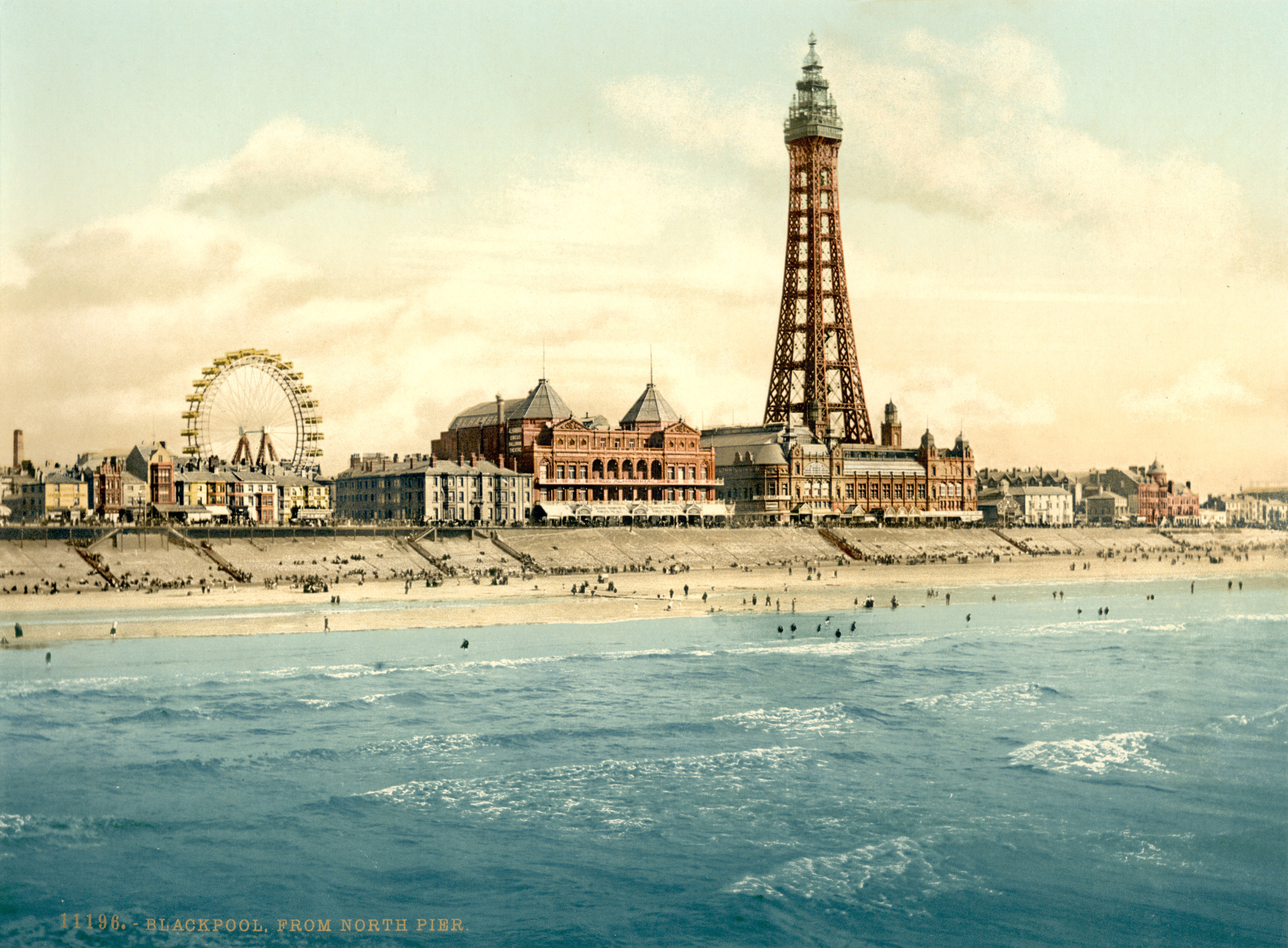 11196. Blackpool. From north pier. Photochrom print by Photoglob Zürich, between 1896 and 1900. From the Photochrom Prints Collection at the Library of Congress More photochroms from England | More photochrom prints [PD] This picture is in the public domain